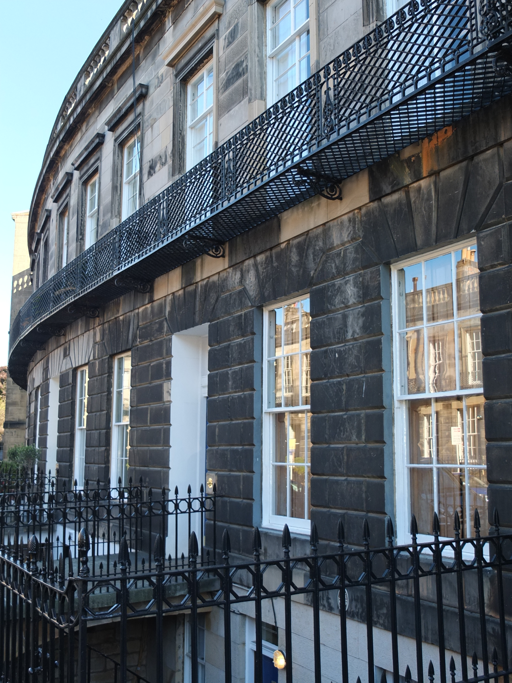 3-23 Danube Street